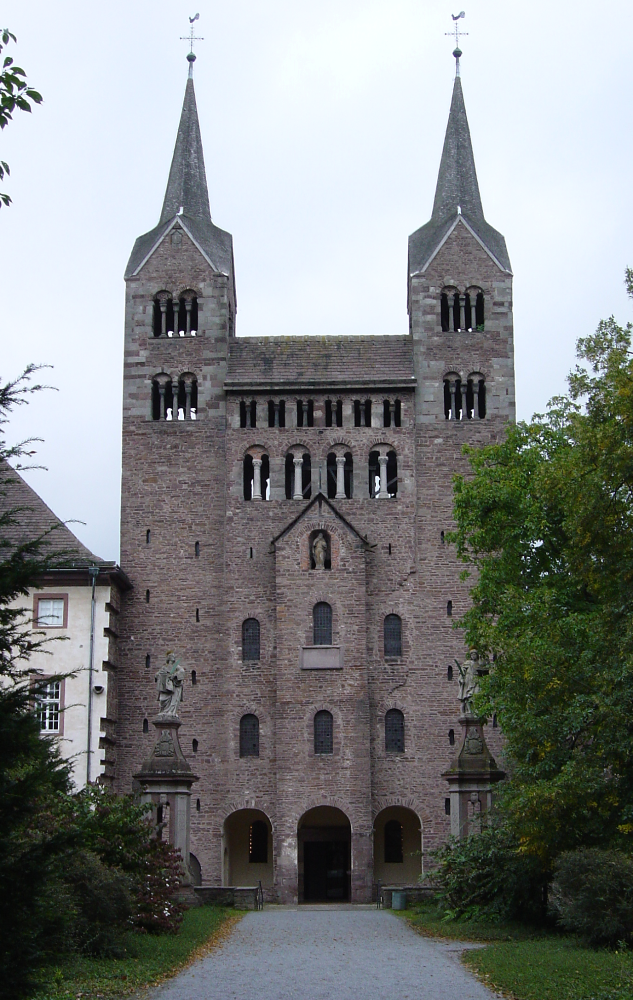 Westwork Corvey Abbey (Carolingian, built 873–885) near Höxter, Germany